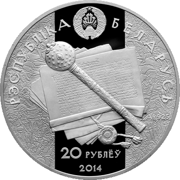 Konstanty Ostrogski - Silver commemorative coins, denomination: 20 rubles